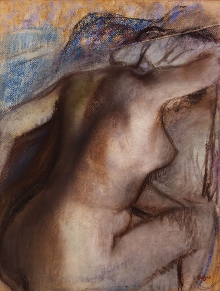 Edgar Degas, After the Bath, Woman Drying Herself, c. 1884–1886, reworked between 1890 and 1900